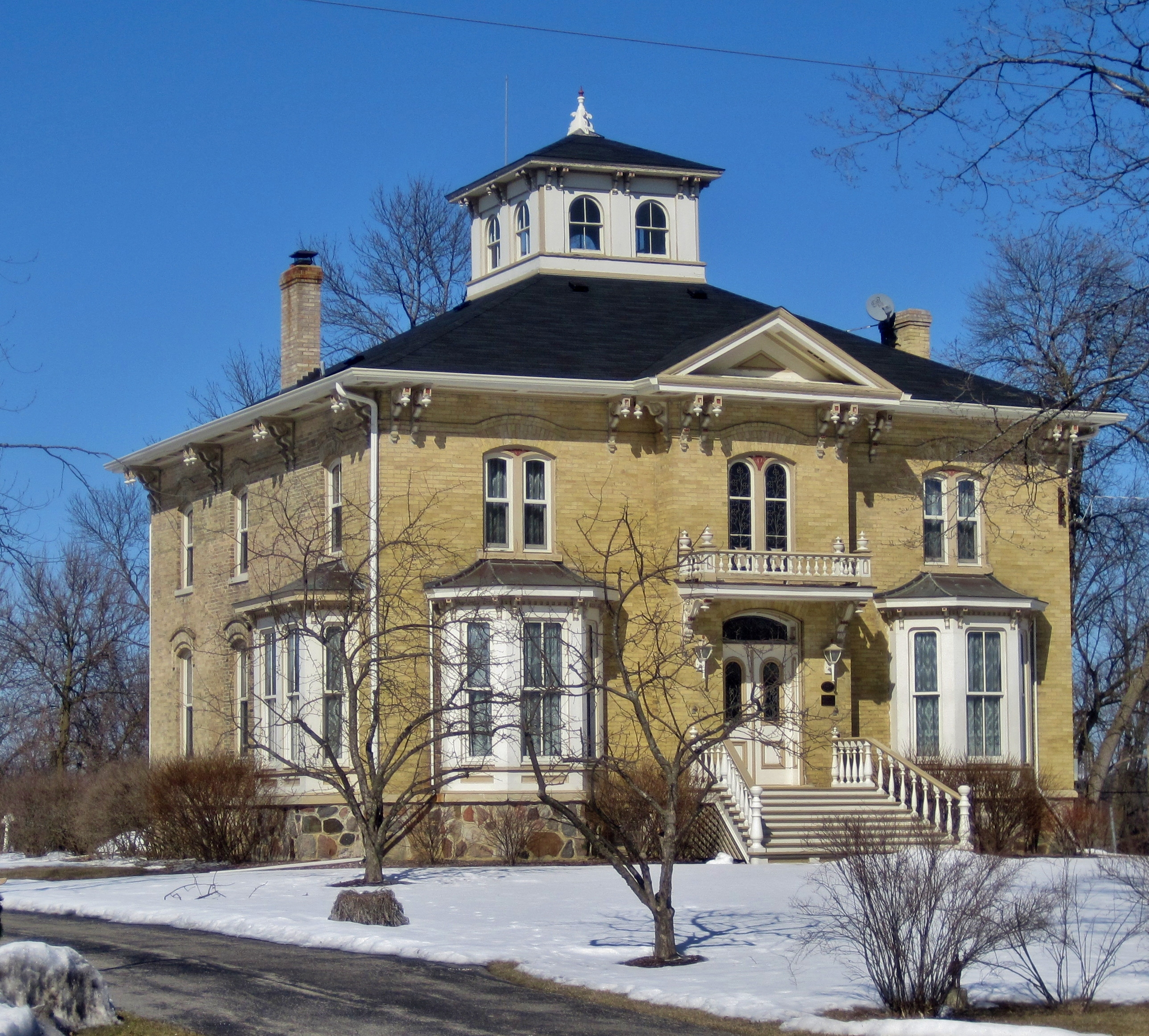 The John M. Strang Residence in the Millburn Historic District, Millburn, IL (1880). John Strang was the son of Robert Strang, and assumed control of his store in 1872.